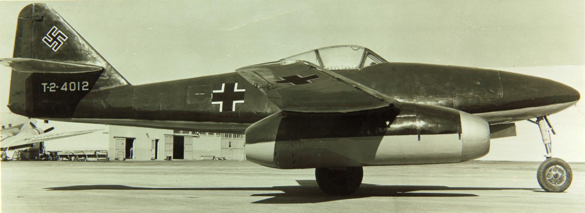 Messerschmitt Me 262 wn 111711, captured and used for postwar evaluation by the United States Army Air Forces as T-2-4012.